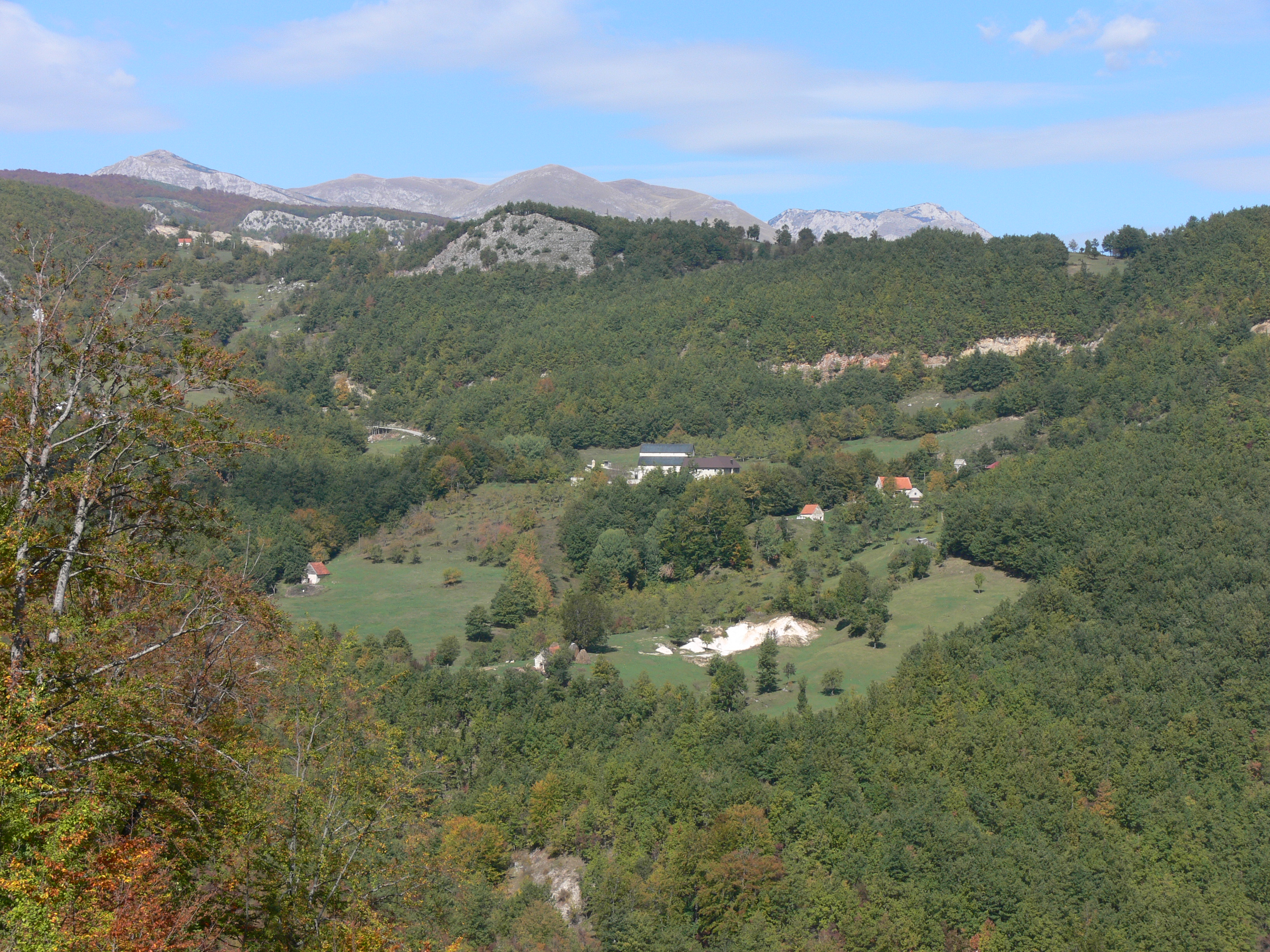 Areal view of the Piva Monastery